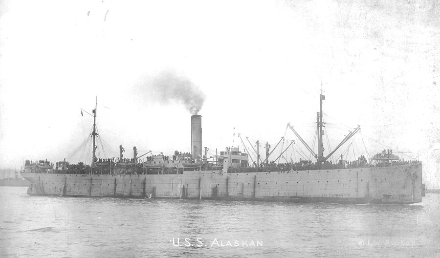 US Navy troop transport USS Alaskan (ID-4542) arriving in the United States, probably at New York City, with her decks crowded with troops returning from service in Europe during World War I.